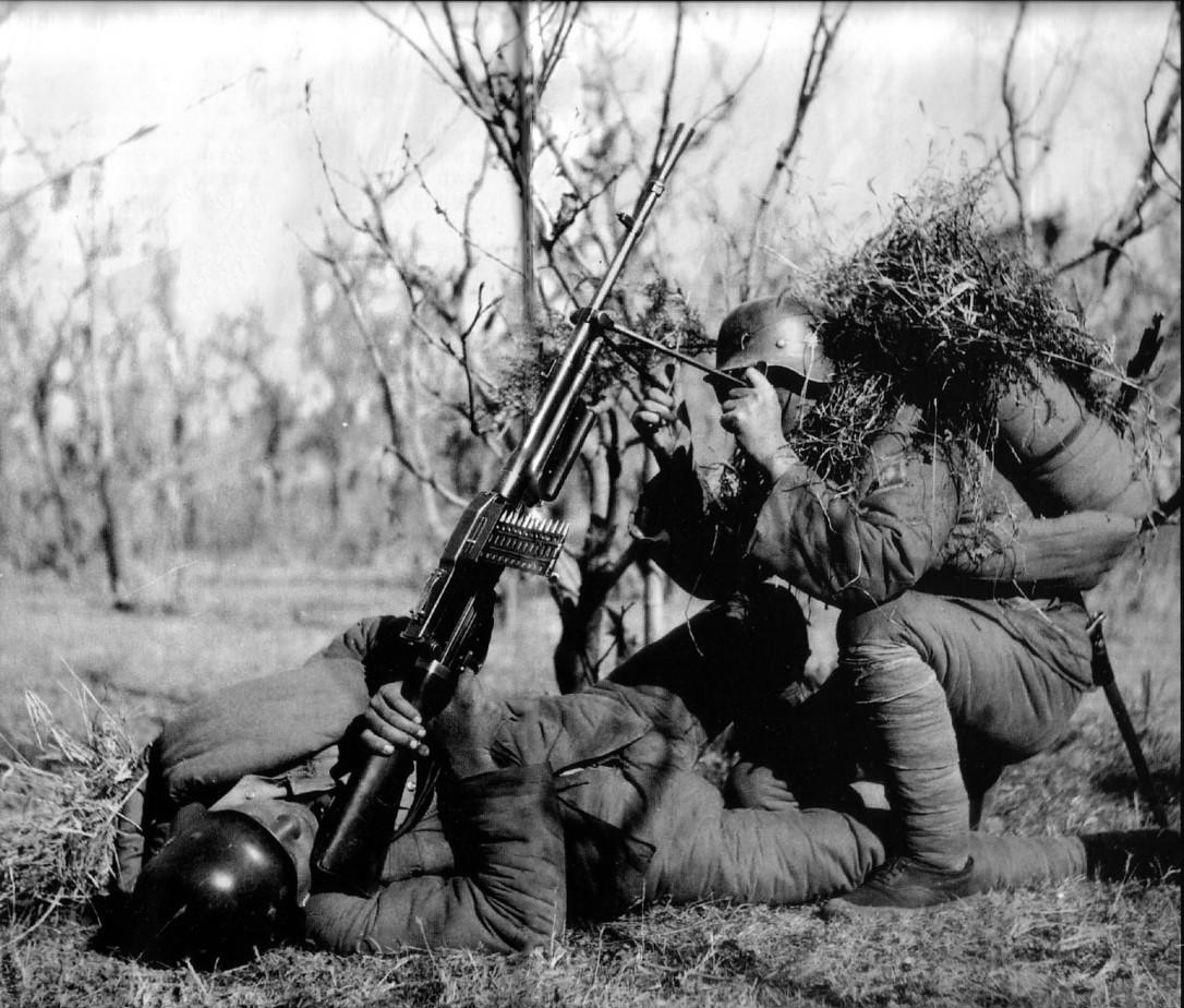 Two NRA soldiers shooting at Japanese warplanes with a machine gun.